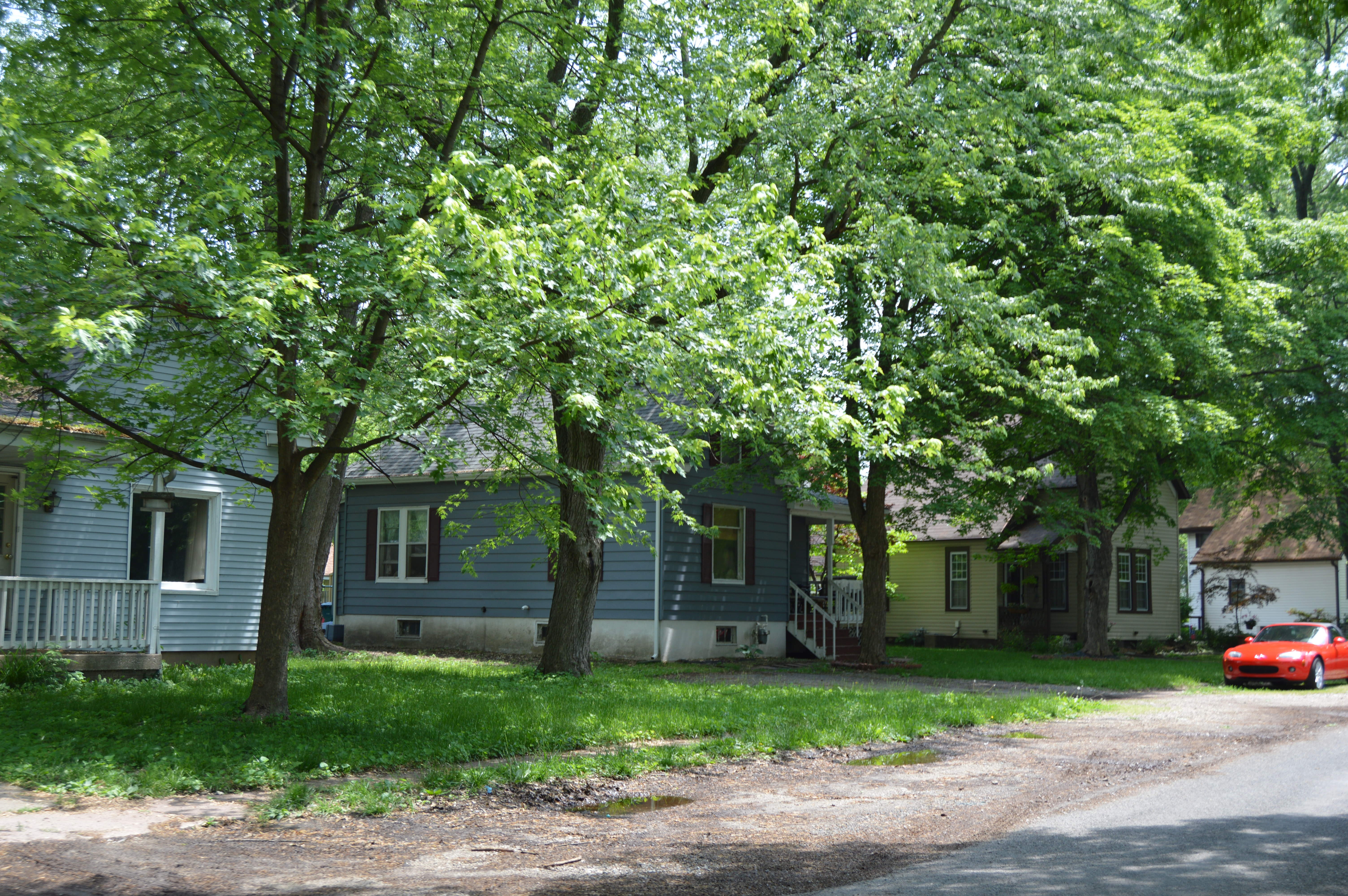 Houses on the eastern side of Holyoke Road in Edwardsville, Illinois, United States. This block is part of the LeClaire Historic District, a historic district that is listed on the National Register of Historic Places.